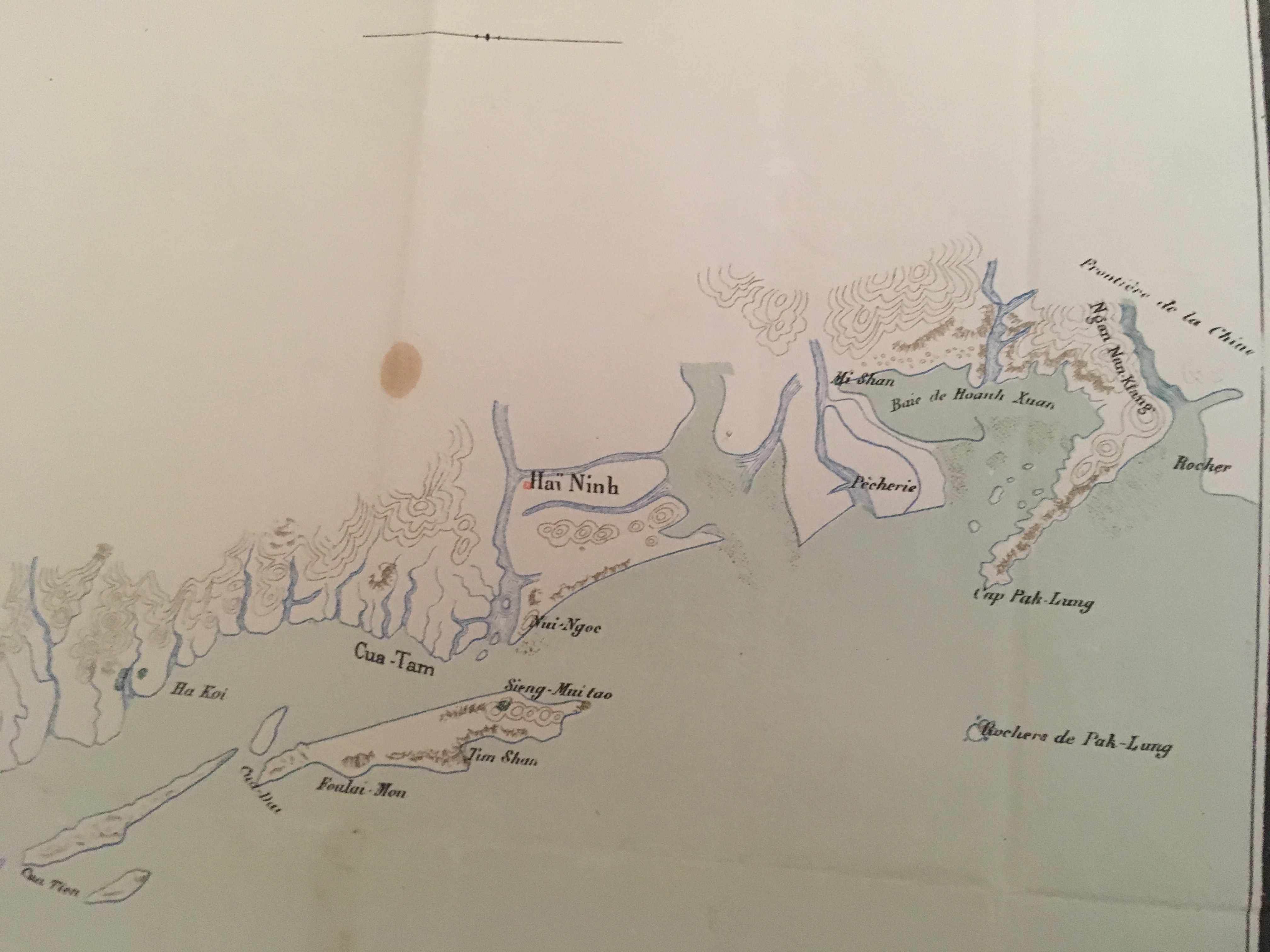 Vietnam-China coastal border 1885